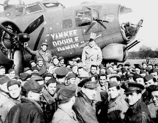 Douglas/Long Beach B-17G-95-DL Fortress 44-83884 "Yankee Doodle Dandy" with James Cagney at Framlingham Airfield, England, 1944.